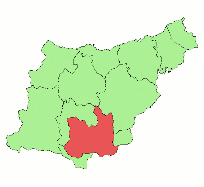 Goierri region in the province of Gipuzkoa